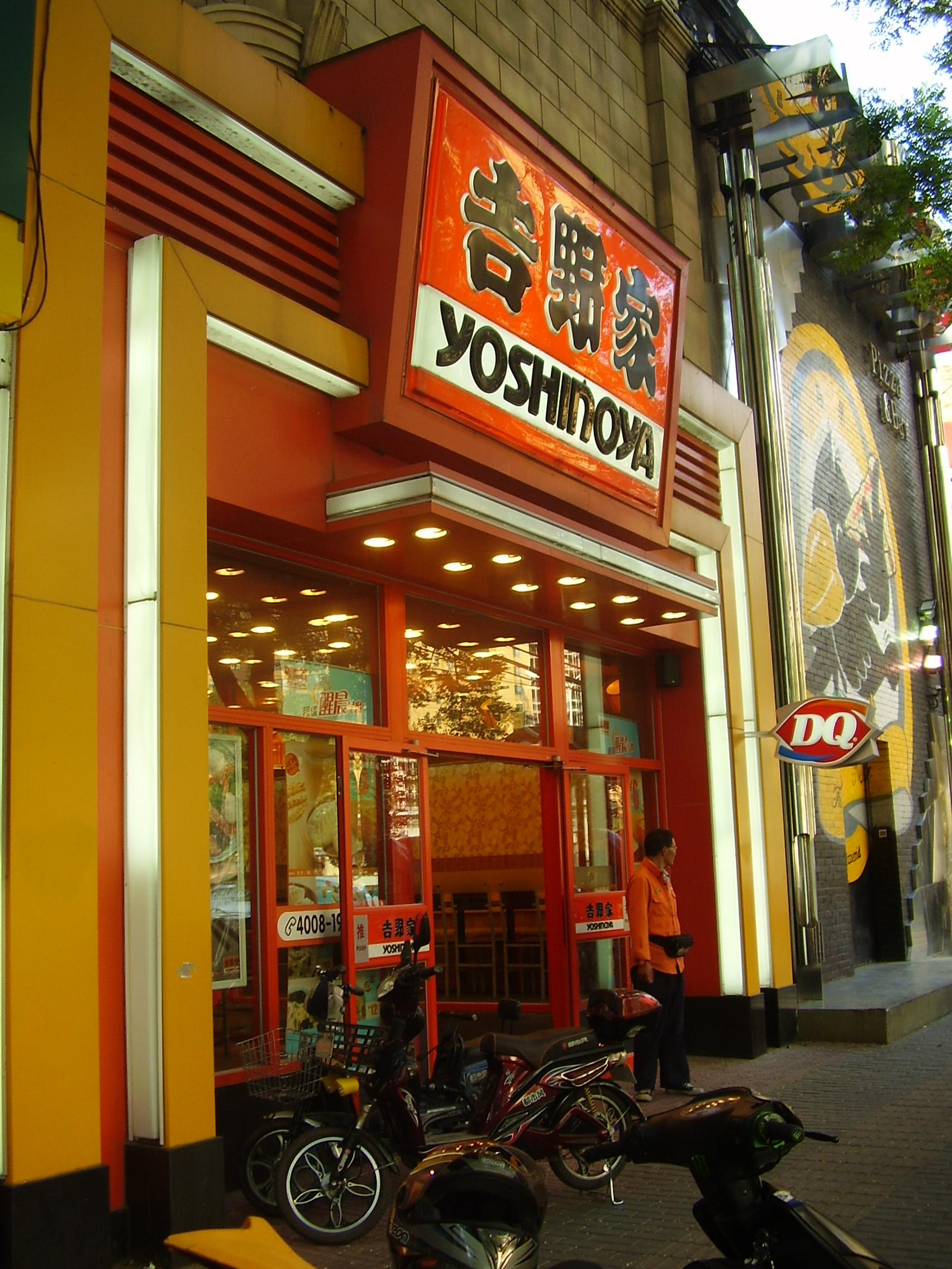 Yoshinoya in Beijing